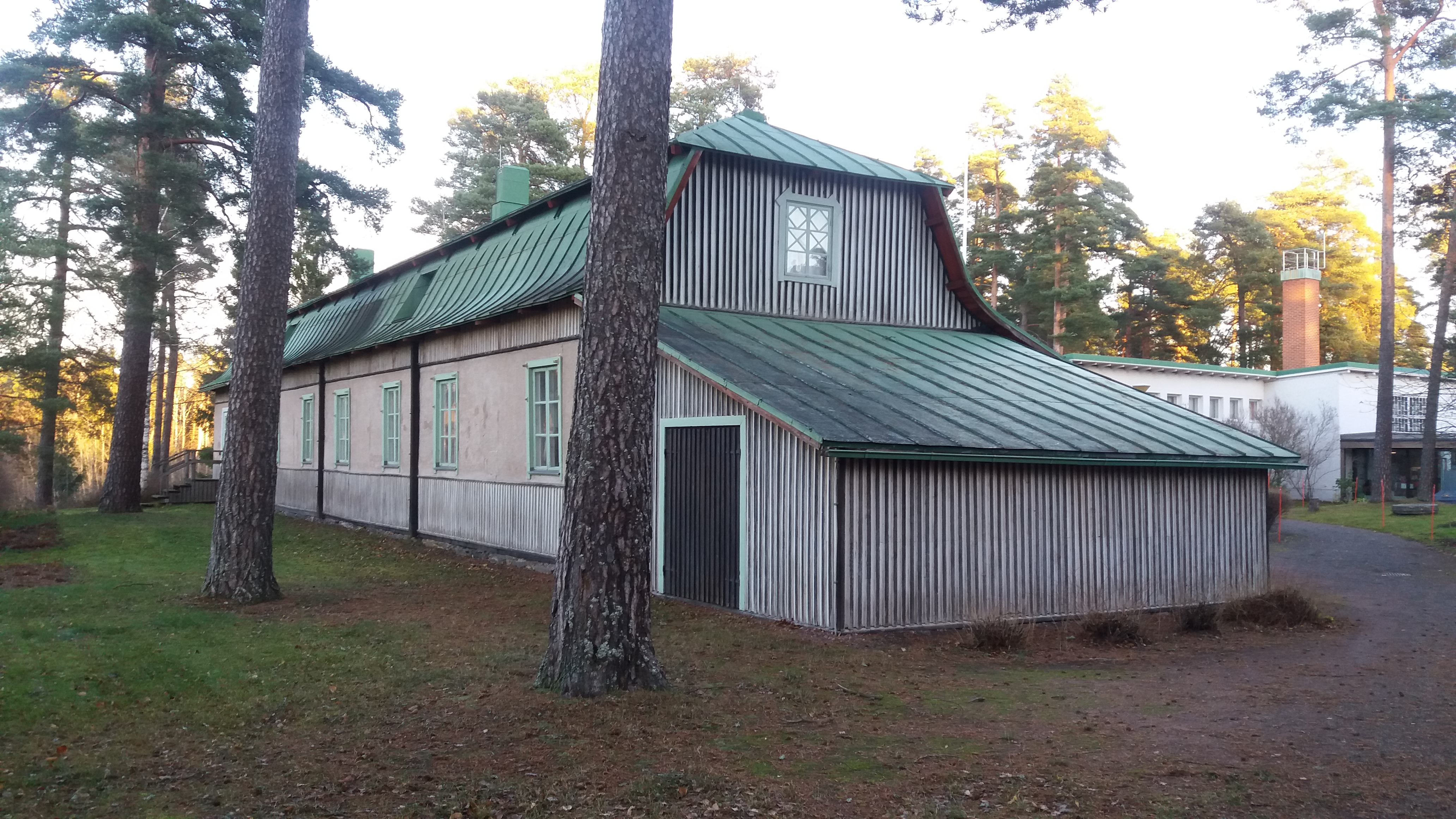 Harjula, the studio and home of the sculptor Emil Cedercreutz (1879-1949) in Harjavalta, Finland. A part of the Emil Cedercreutz Museum.